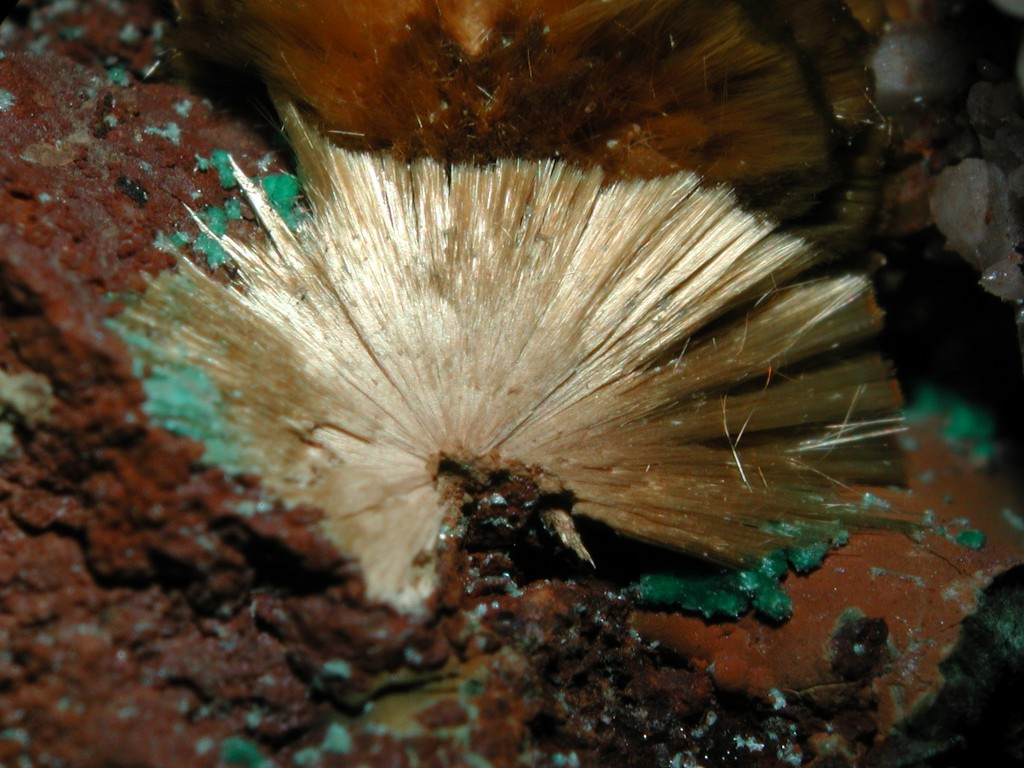 Olivenite Locality: Carharrack Mine, St Day United Mines (Poldice Mines), Gwennap, Camborne - Redruth - St Day District, Cornwall, England, UK Original description: Olivenite from the type locality at Carharrack. Please note that M.H. Klaproth stated in his original description : " I confine myself merely to the analysis of the needle-shaped (olive copper ore) from Carrarack" (M.H. Klaproth, Analytical Essays Towards Promoting the Chemical Knowledge of Mineral Substances, Vol. II, 1804). Field of view approx. 1 x 0,7 cm